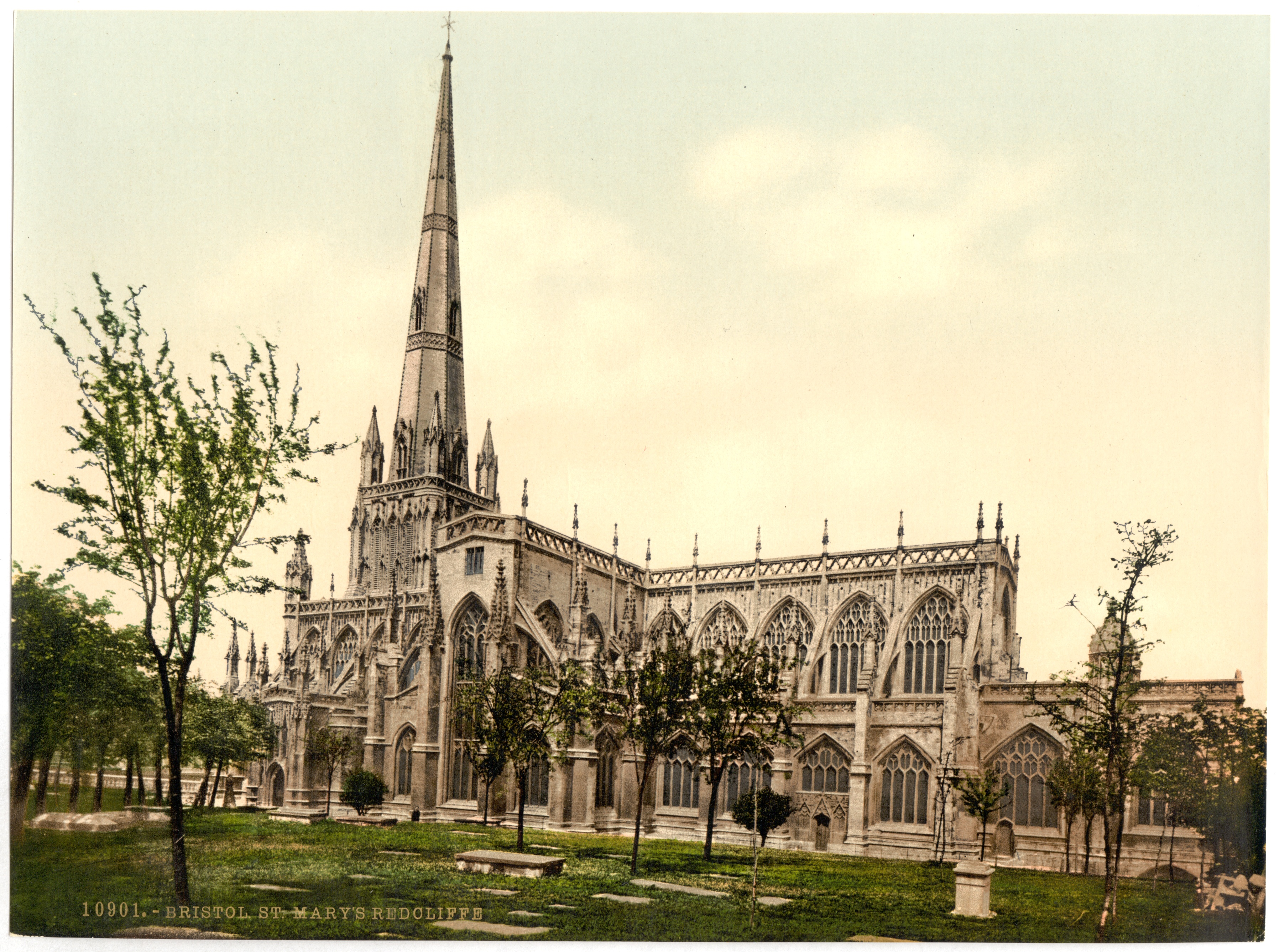 Photochrom of St Mary Redcliffe, Bristol.